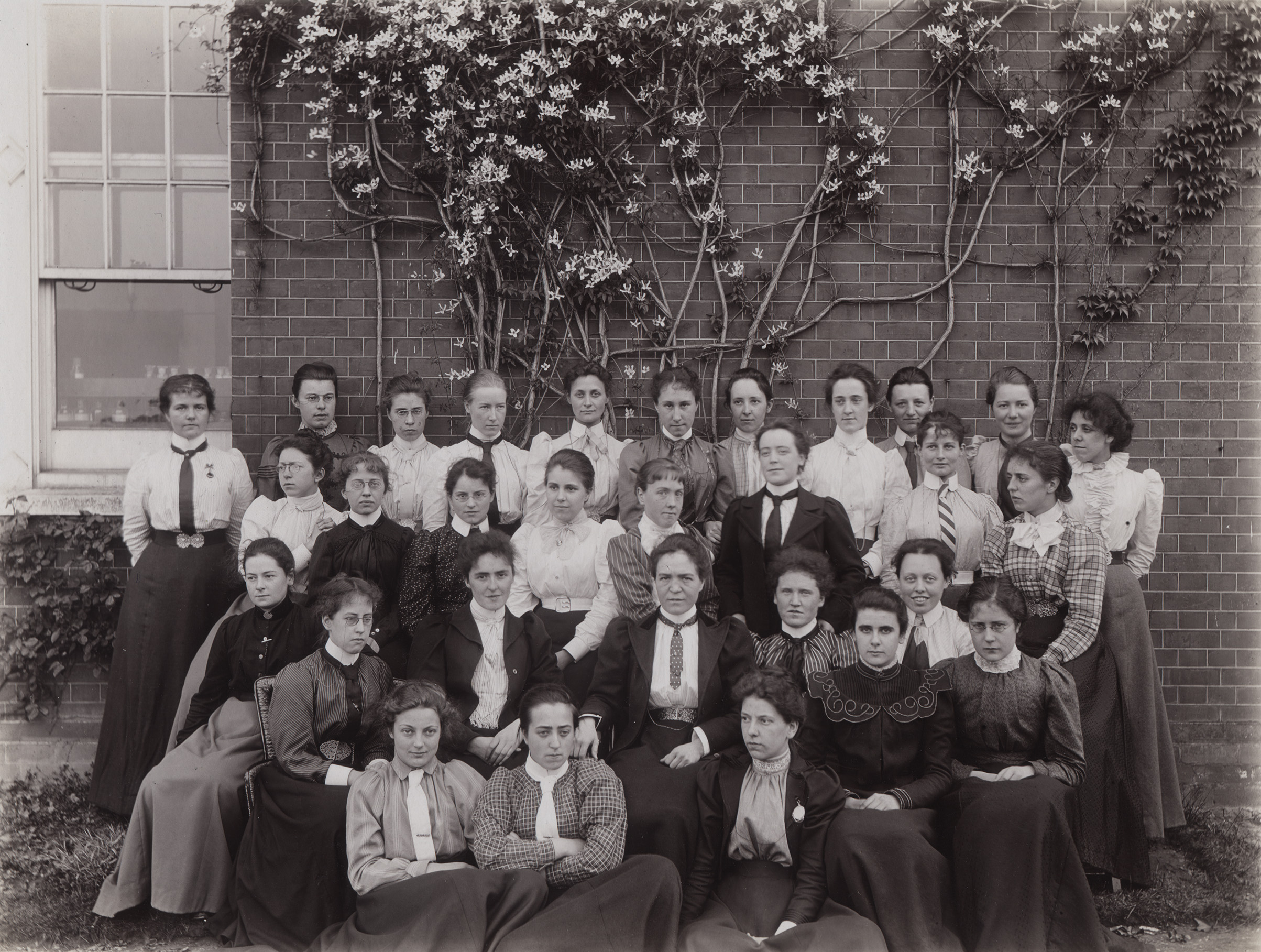 Chemistry staff and students c.1899 at the Royal Holloway College, University of London. Elizabeth Eleanor Field is in the 3rd row down, 3rd from left.